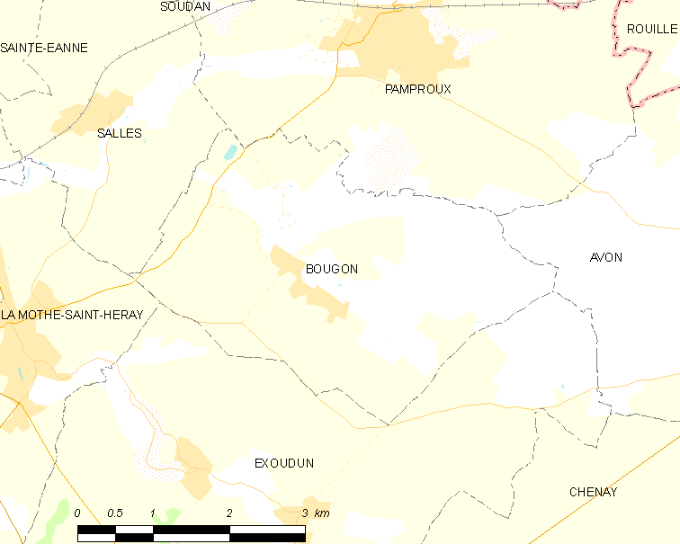 Map of French municipality Bougon